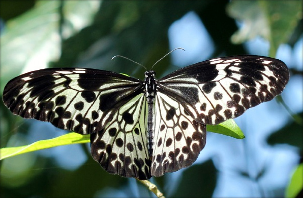 Andaman tree nymph at Mt Harriet national park.